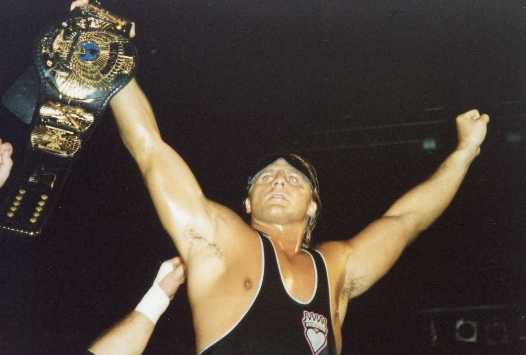 Professional wrestler Owen Hart with the WWF Championship, the only major championship in the WWF that he didn't win.